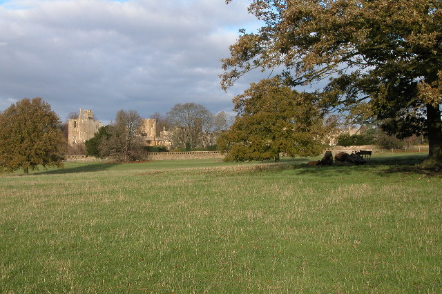 Sudeley Castle